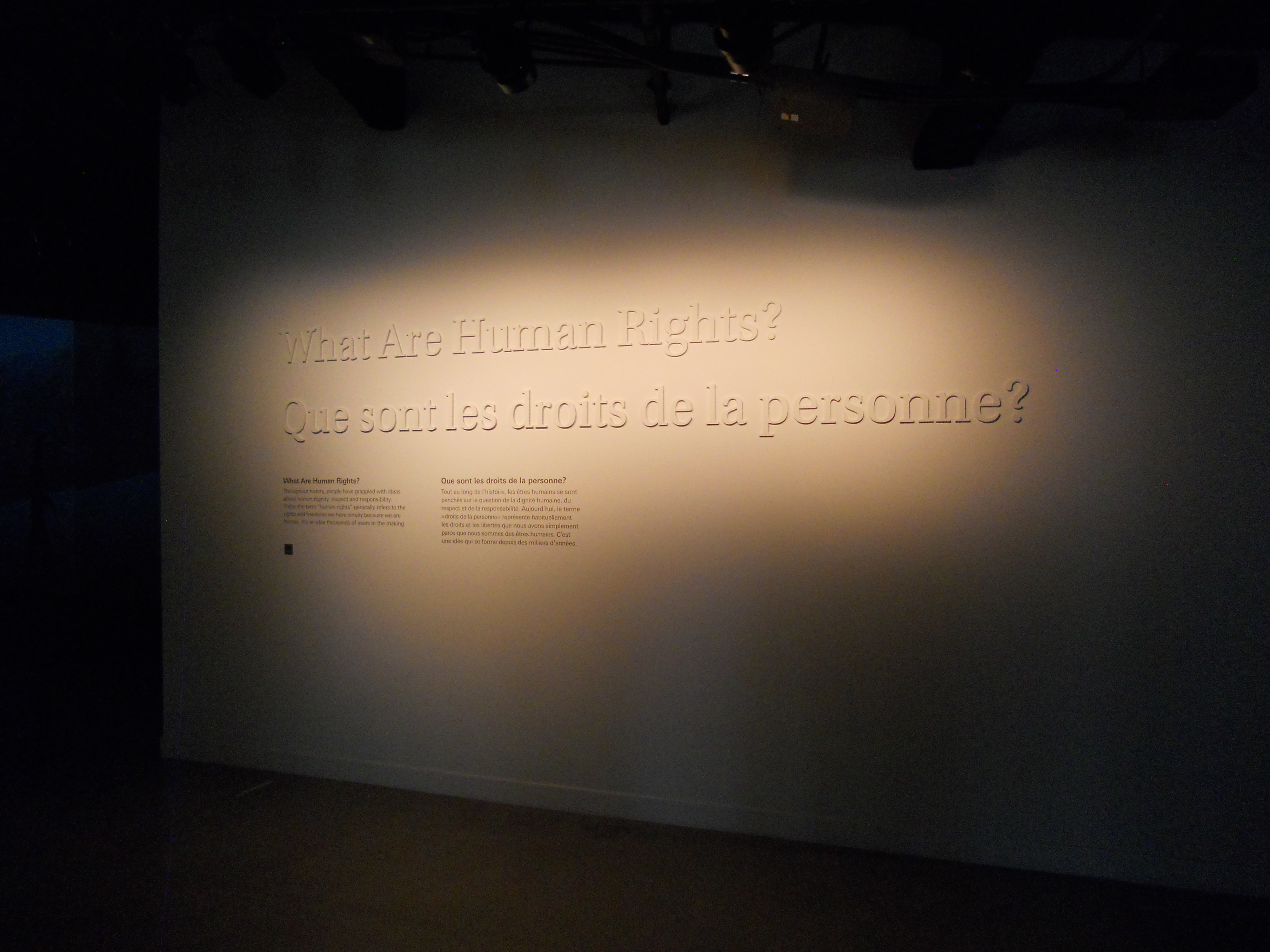 Canadian Museum for Human Rights.